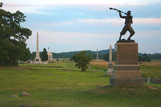 "High Water Mark" - Cemetery Ridge, Gettysburg Battlefield This photo shows the so-called "High Water Mark" as it appears today. This is the location on Cemetery Ridge where the Confederate Army attacked the center of the Union lines on the 3rd day of the Battle of Gettysburg. Although this attack has been popularly known as "Pickett's Charge" it in fact was executed by three Confederate divisions, commanded by Major Generals George Pickett, J. Johnston Pettigrew, and Isaac R. Trimble, consisting of troops from Gen. James Longstreet's First Corps and A.P. Hill's Third Corps. This photo looks south along the Ridge with Little Round Top and Big Round Top in the distant background. The monument in the front is the 72nd Pennsylvania Infantry Monument.